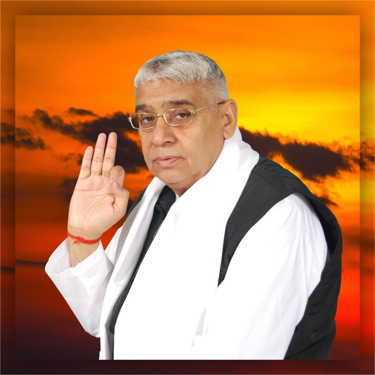 Spiritual Leader Jagatguru Saint Rampal Ji Maharaj